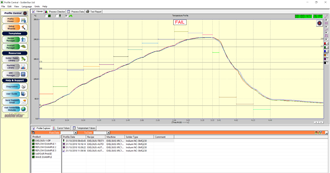 The graph is captures by a Solderstar thermal profile, showing component temperatures as the assembly passes through a reflow oven